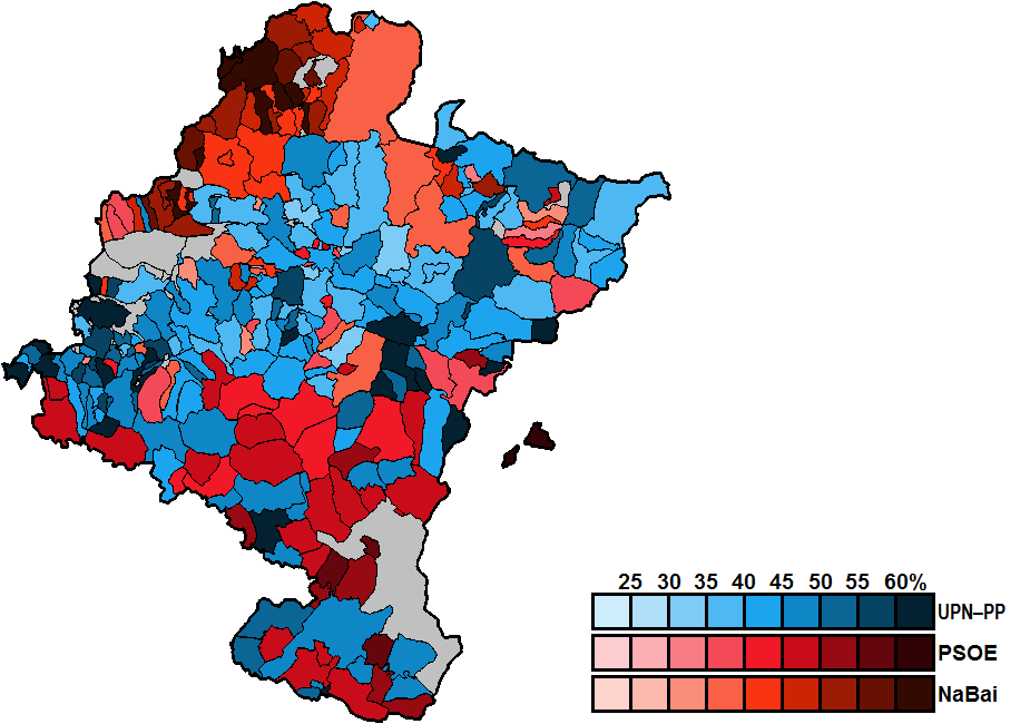 Most-voted party in Navarre municipalities, showing vote share obtained, in the Spanish general election, 2008.